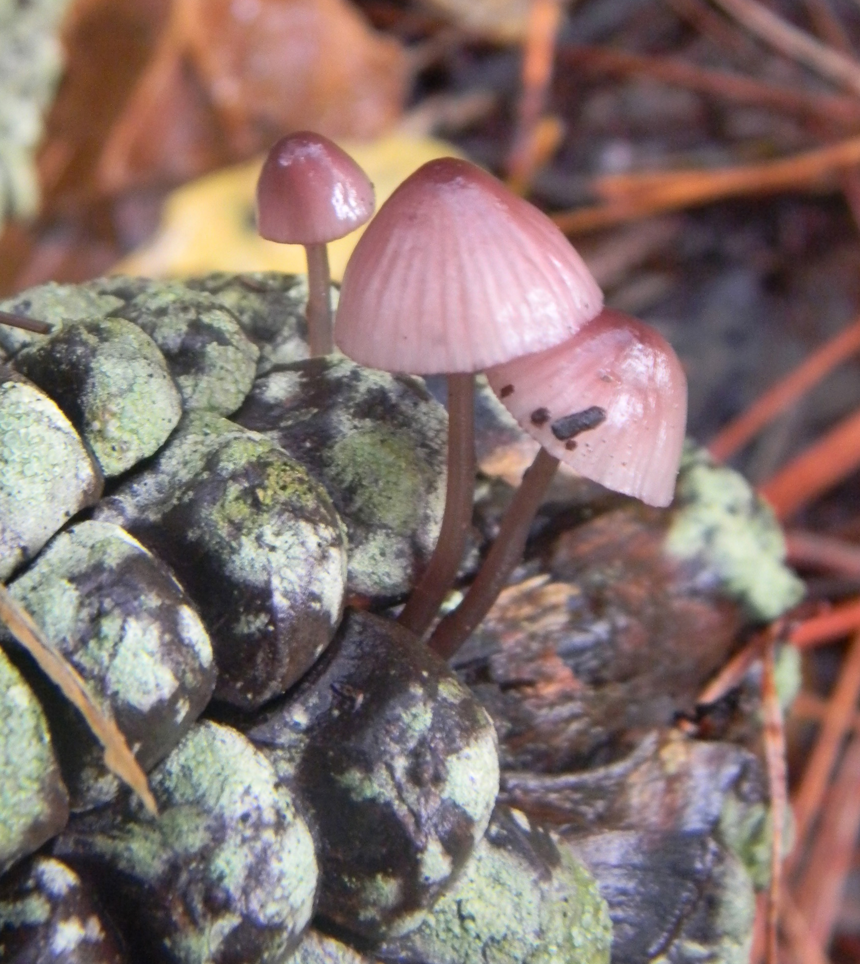 Fruit bodies of the agaric fungus Mycena purpureofusca (Peck) Sacc.growing on pine cones. Photographed in Tilden Park, Contra Costa Co, California, USA.